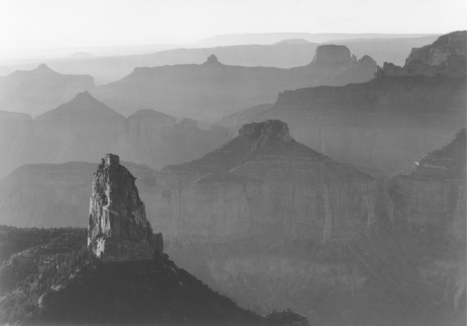 79-AAF-3 "Grand Canyon National Park," panorama with rock formation in foreground.